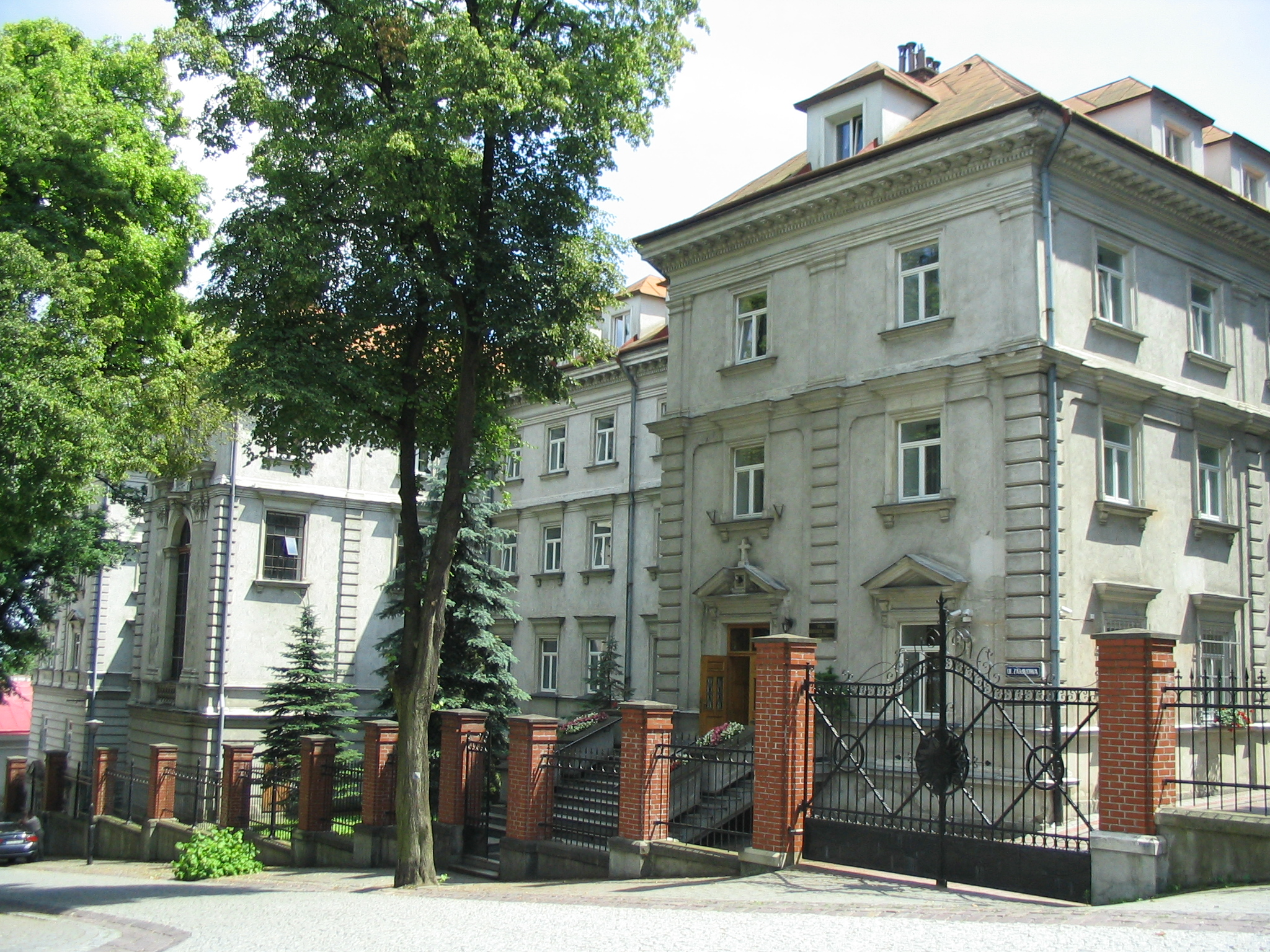 Seminary in Przemyśl, Poland